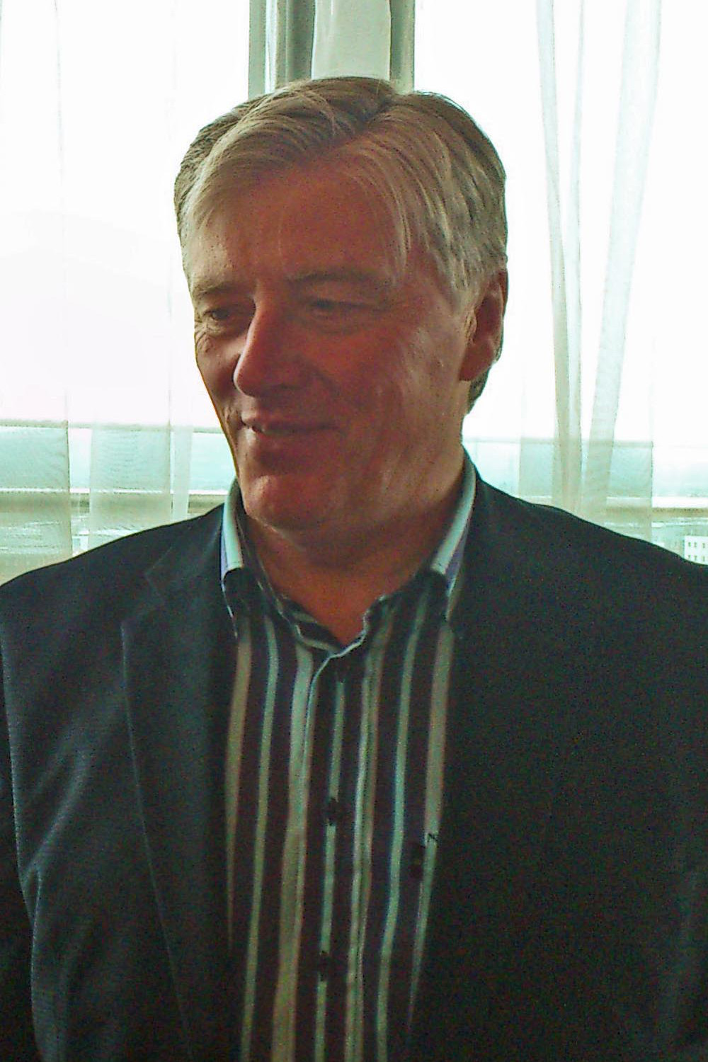 Pat Kenny in 2011